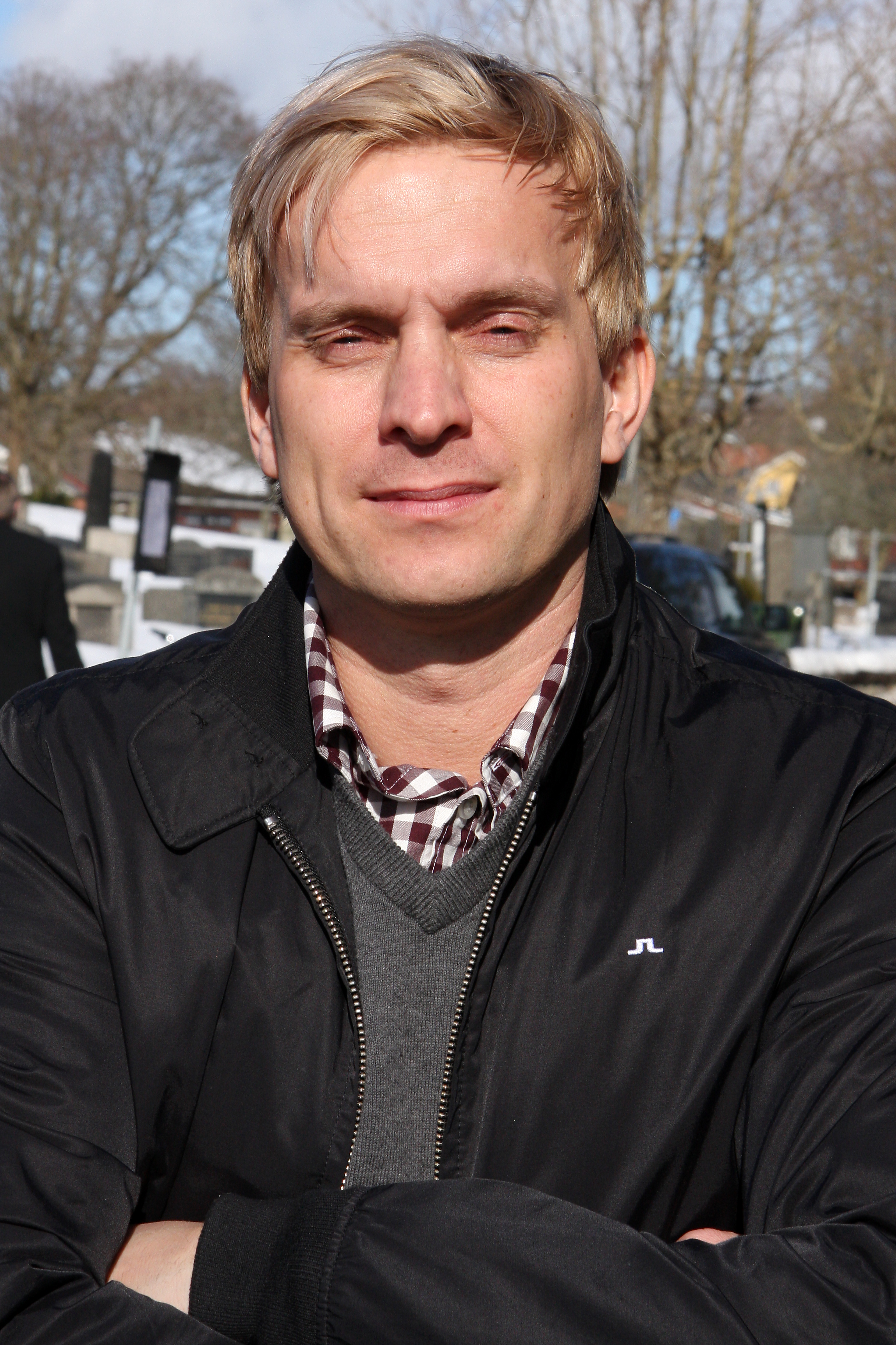 Swedish actor and former taekwondo champion Liam Norberg